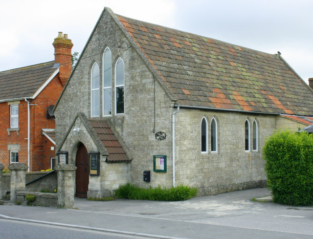 Baptist Chapel, Yarnbrook On Westbury Road near the roundabout.